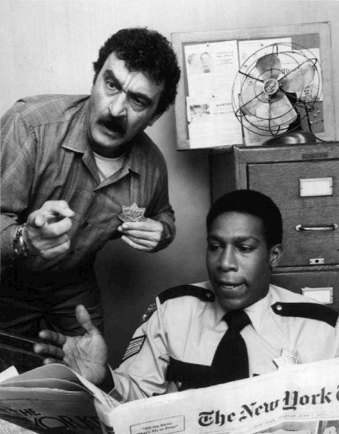 Photo of Victor French and Kene Holliday from the television program Carter Country.